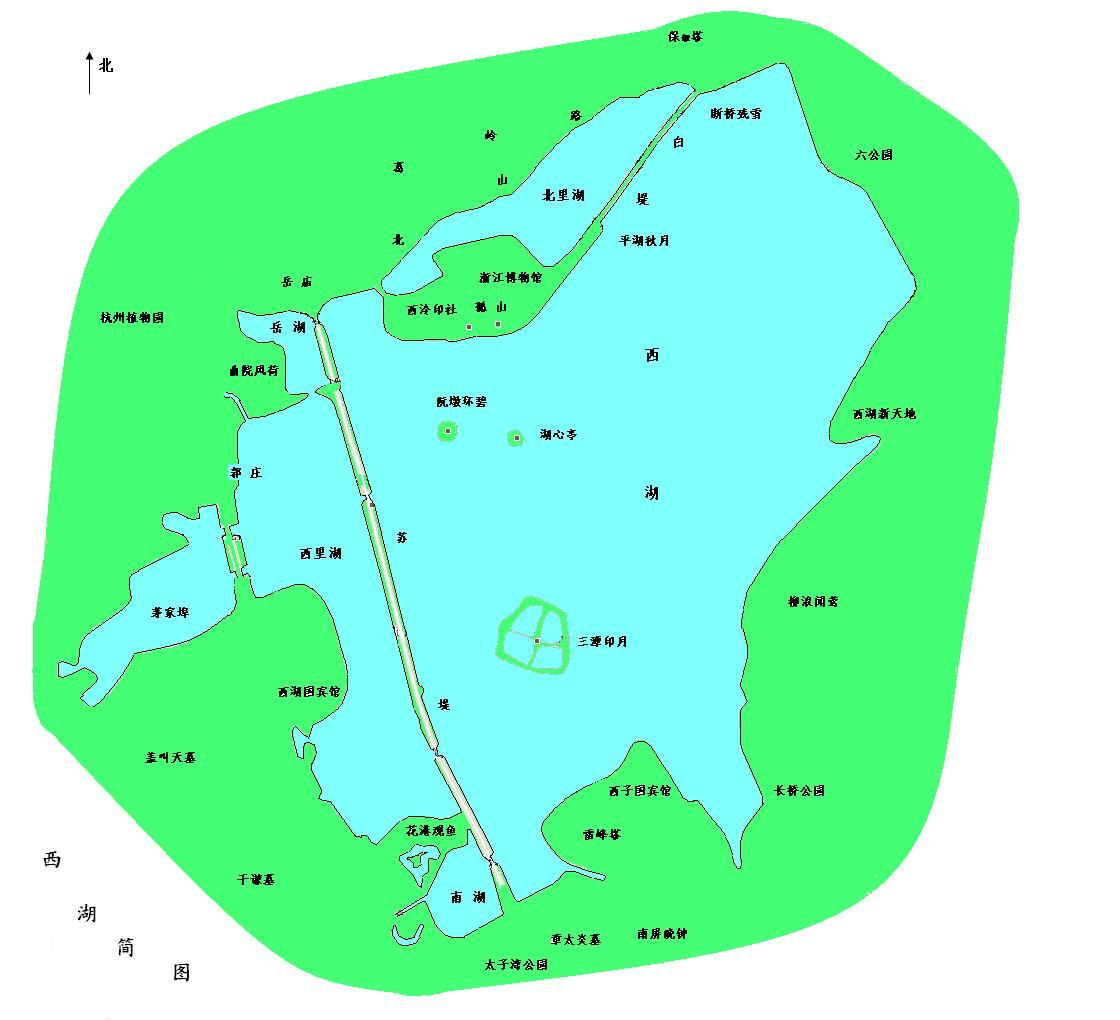 This is the map of Hangzhou West Lake.